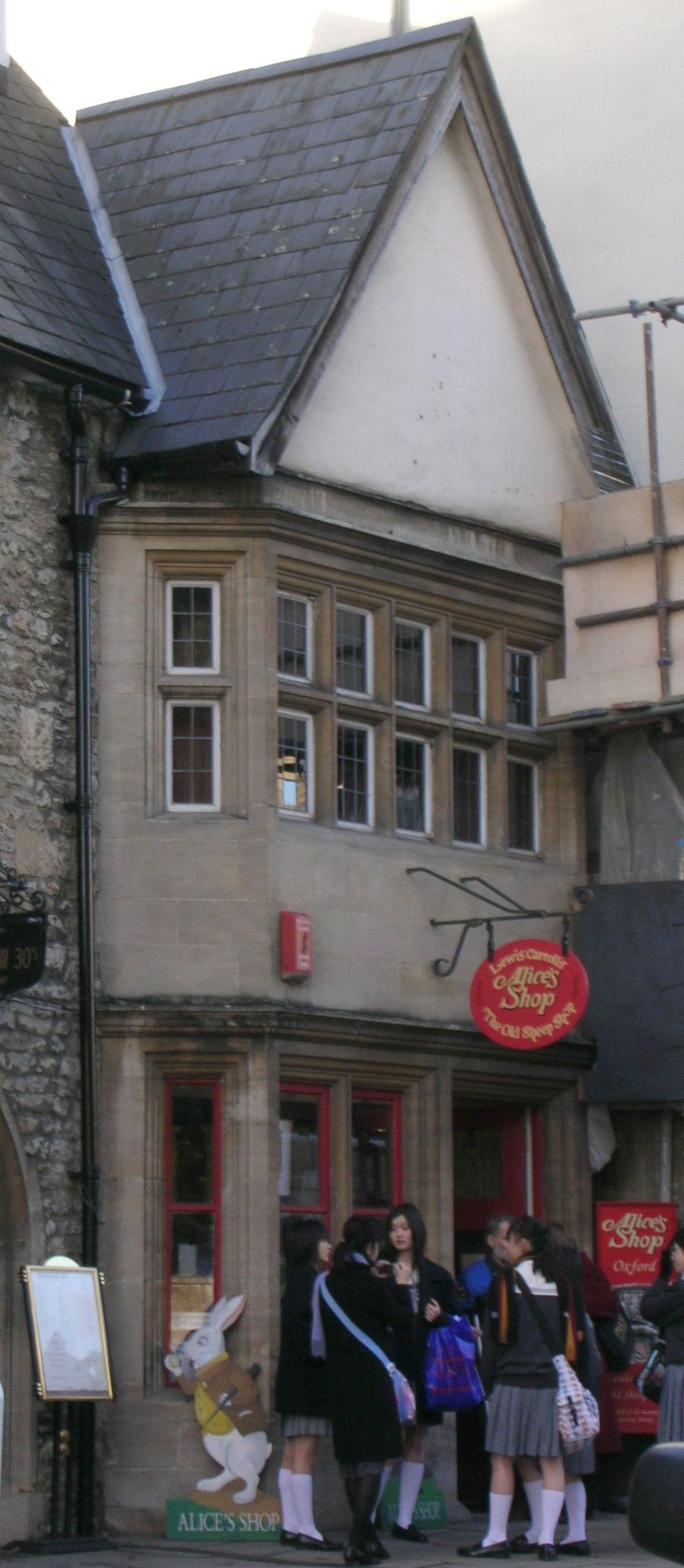 Alice's Shop, St Aldate's, Oxford, England. Photograph by Jonathan Bowen, 2006.